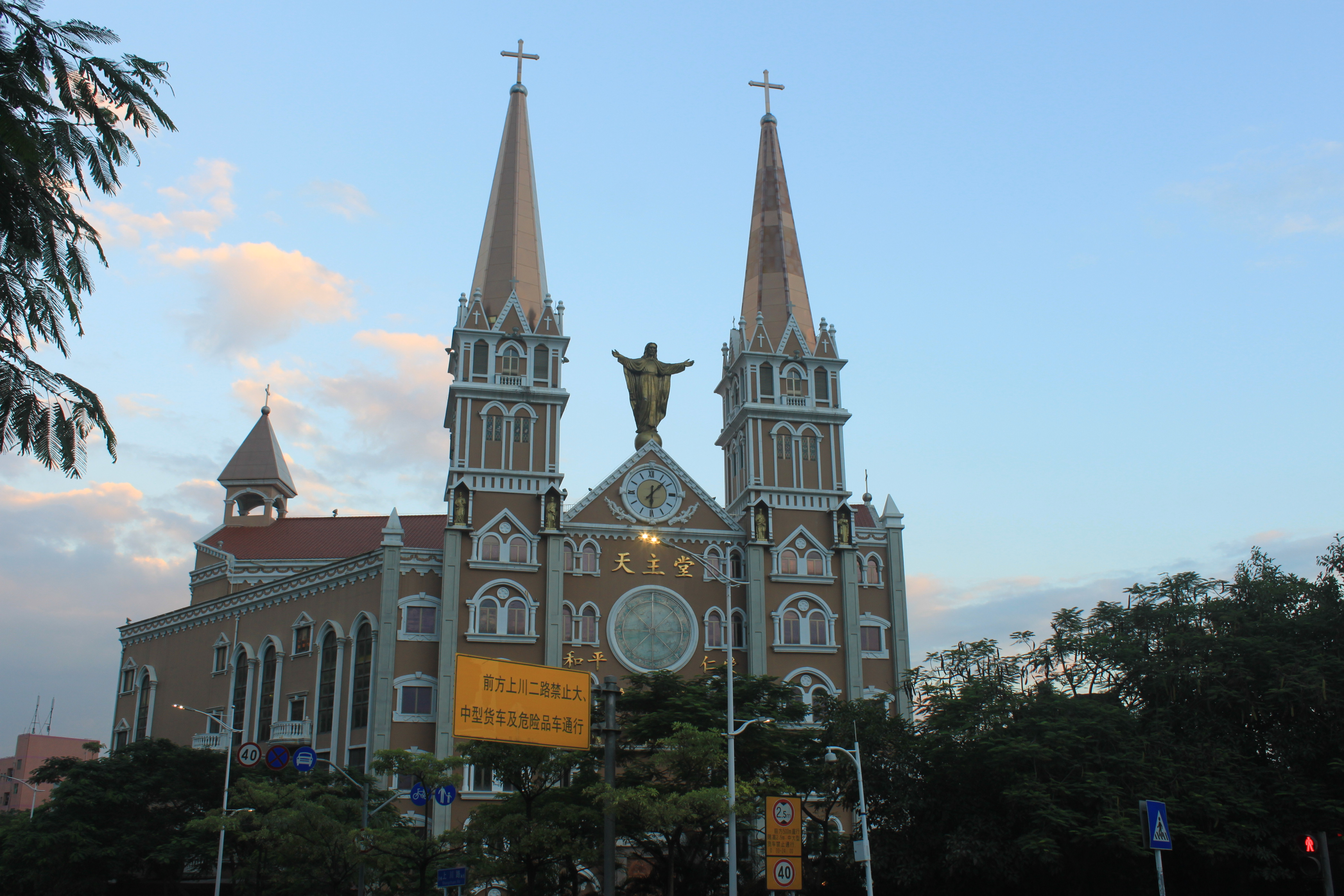 Christ the King Church is a Roman Catholic church in Bao'an District, Shenzhen, Guangdong, China.